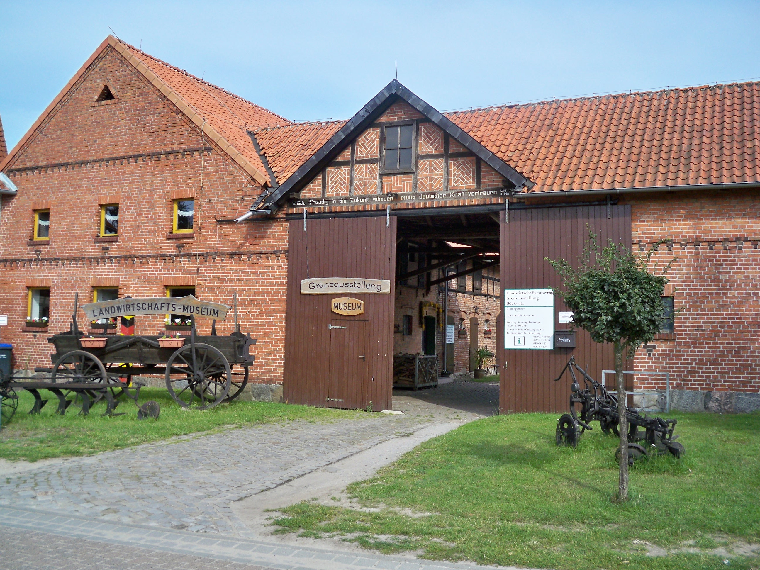 Böckwitz, Saxony-Anhalt, Museum